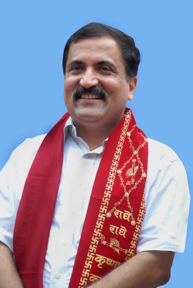 Profile Picture